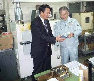 Banri Kaieda, Minister of State for Science and Technology Policy, talked with Masahiro Kawamura, President of Kawamura Research Lab., Inc., at the Headquarters of Kawamura Research Lab., Inc. in Meguro Ward, Tōkyō Metropolis on December 17, 2010.